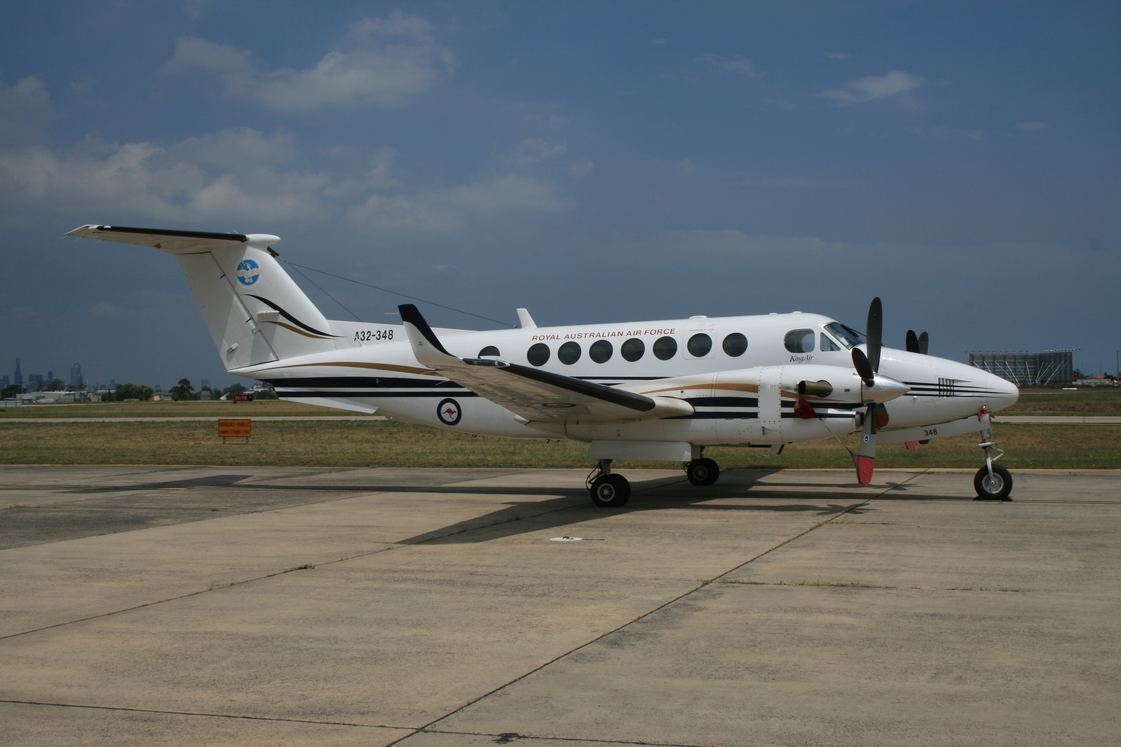 The Royal Australian Air Force operates eight leased Beechcraft B300 King Air 350s as navigator trainers. Digital photo of A32-348 taken by YSSYguy at Essendon Airport on December 5 2007 for use in the Beechcraft Super King Air article.